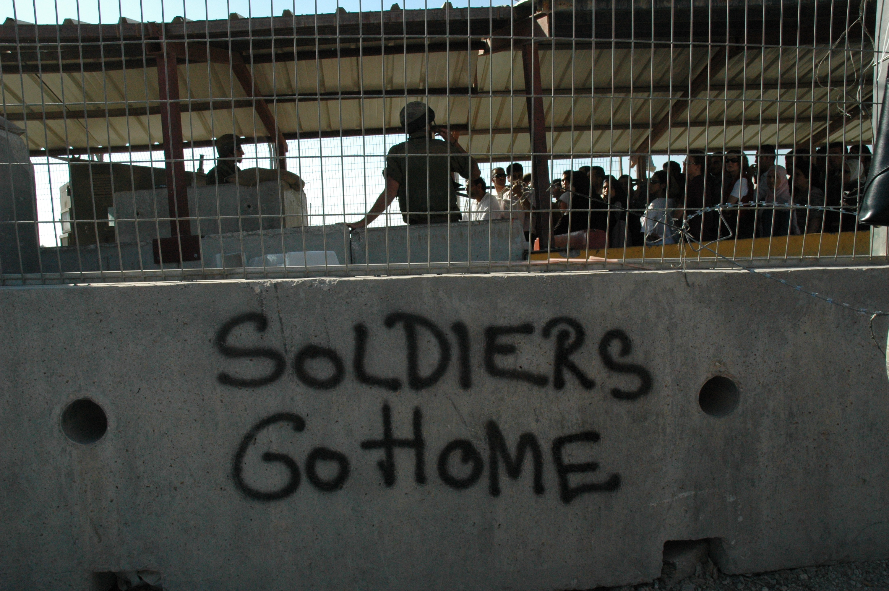 Israel, Kalandia - Graffiti on a checkpoint at Kalandia.